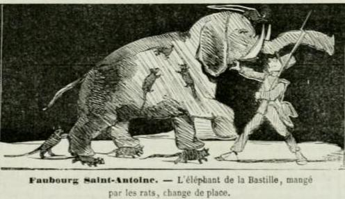 "The elephant of the Bastille, eaten by rats, changes places."